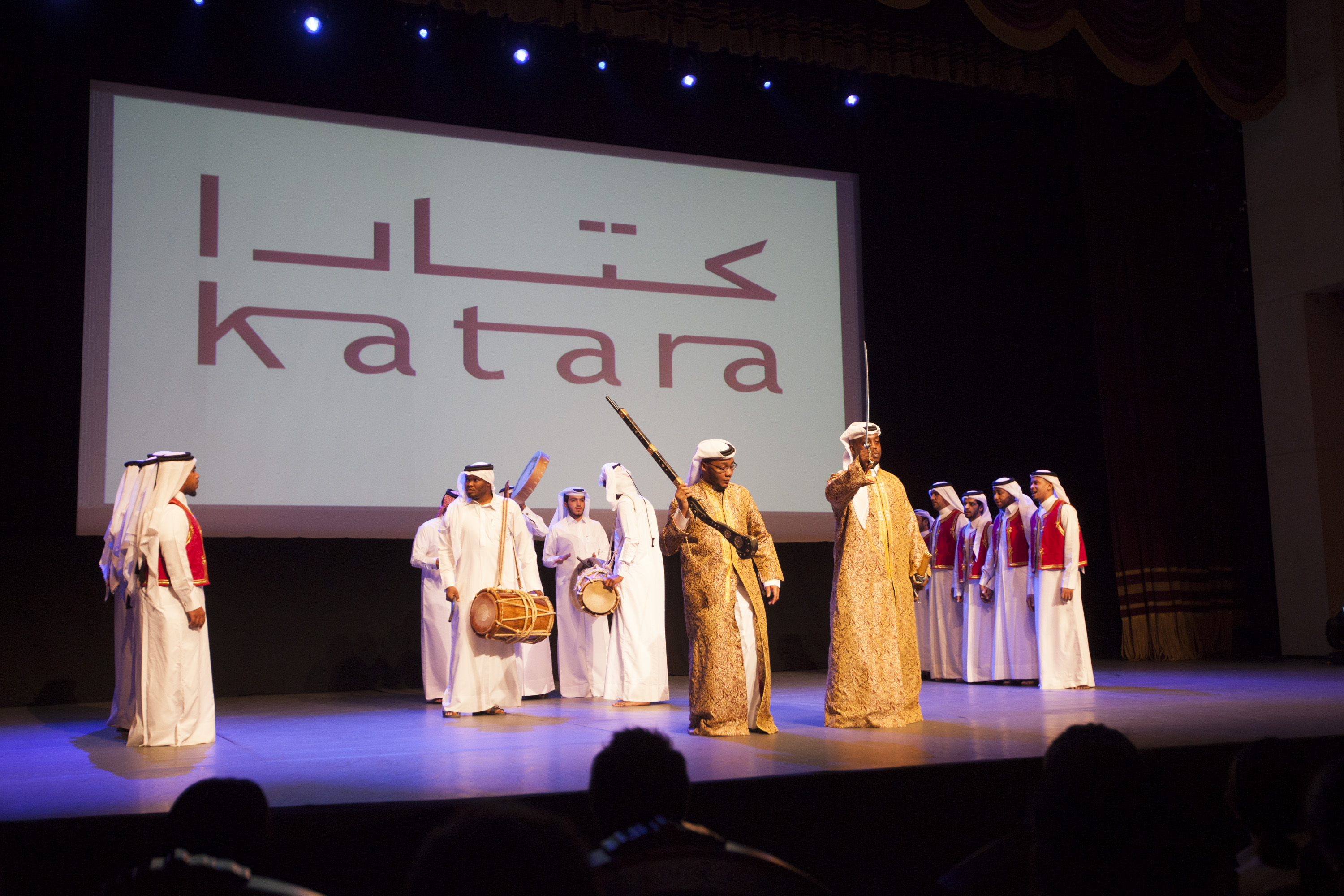 Traditional male Qatari musicians.